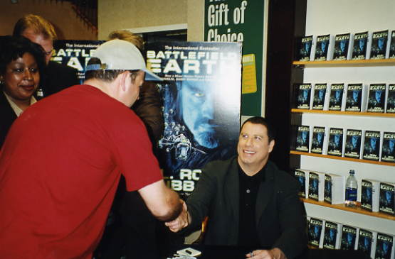 John Travolta, signing copies of Battlfield Earth, in Barnes & Noble NYC in 2000.